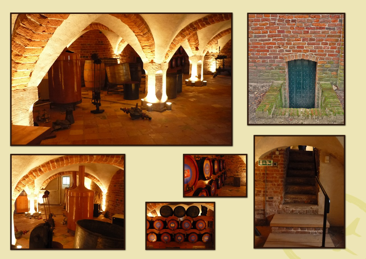 this is the cellar of the de church